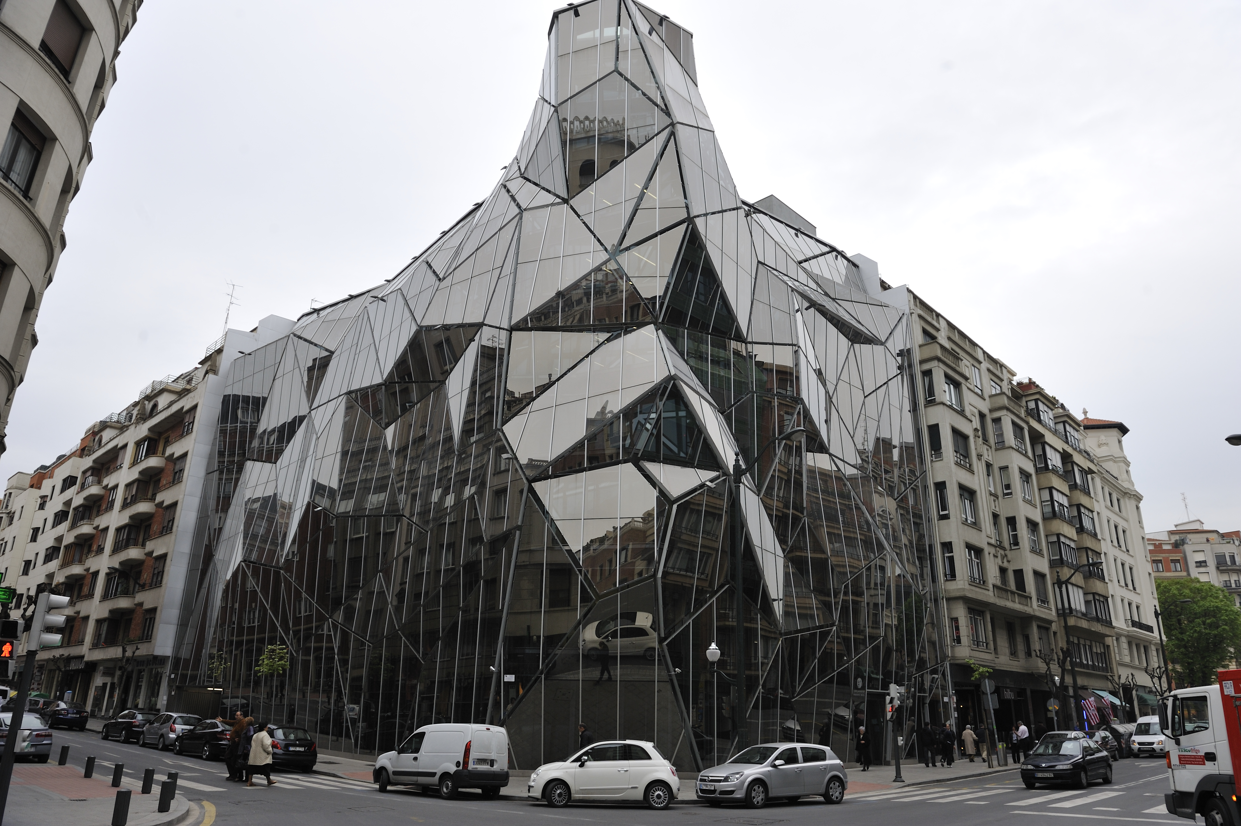 Building of Basque Health Public Service - Osakidetza. Bilbao, Bizkaia. Basque Country.